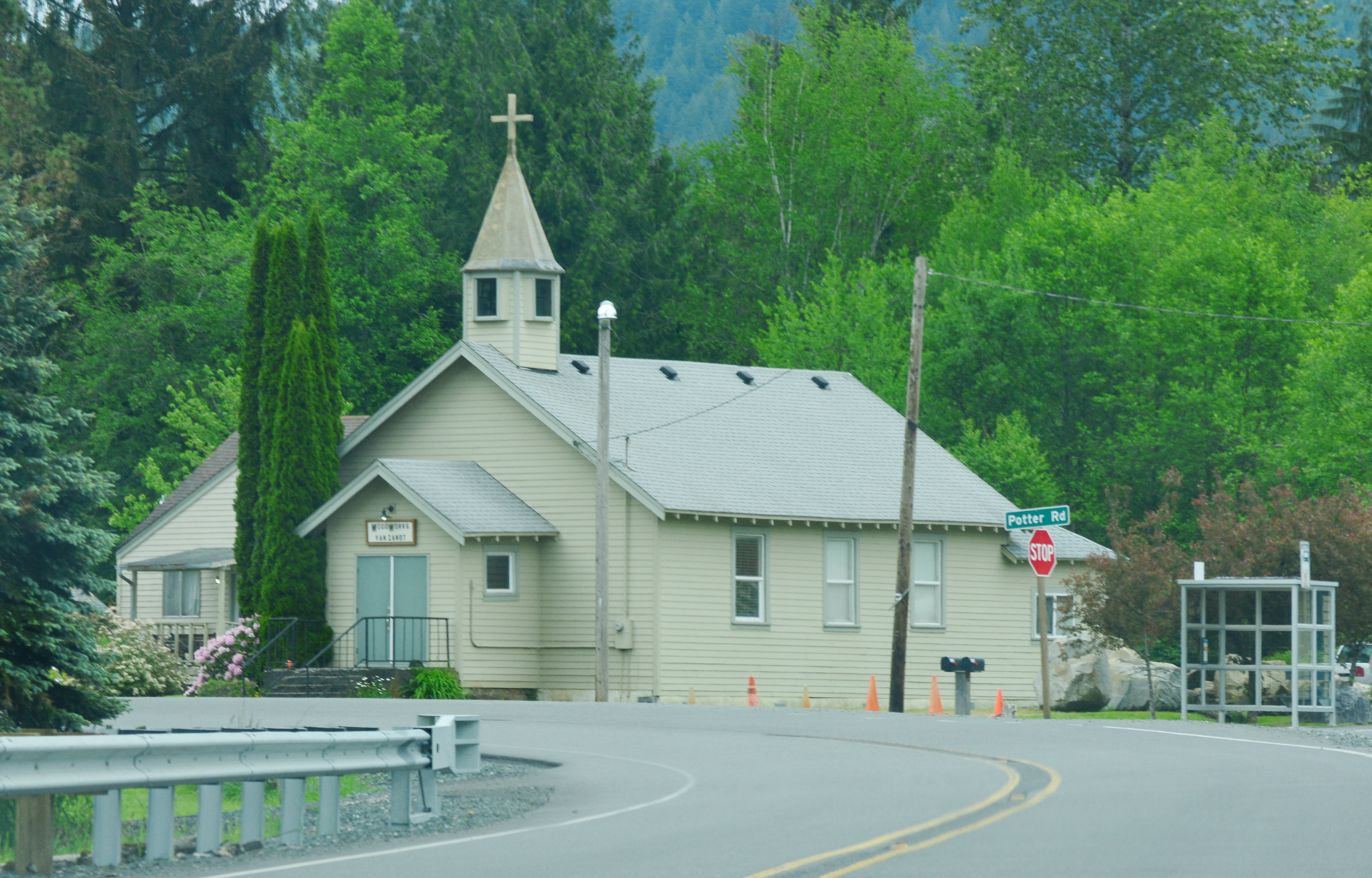 Former church, now a woodworking shop, Van Zandt, Washington.